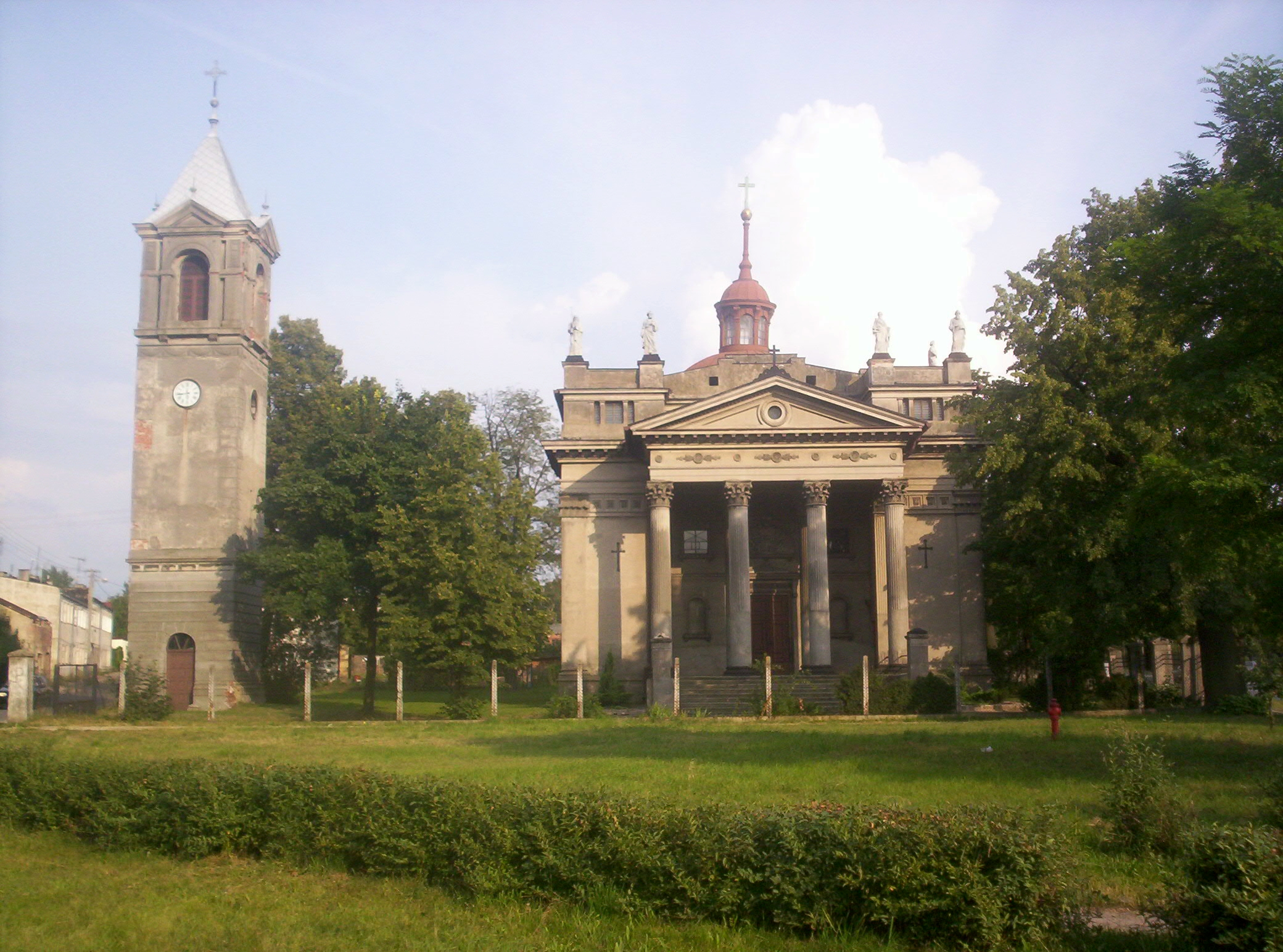 Evangelical church from XIX century in Ozorków city